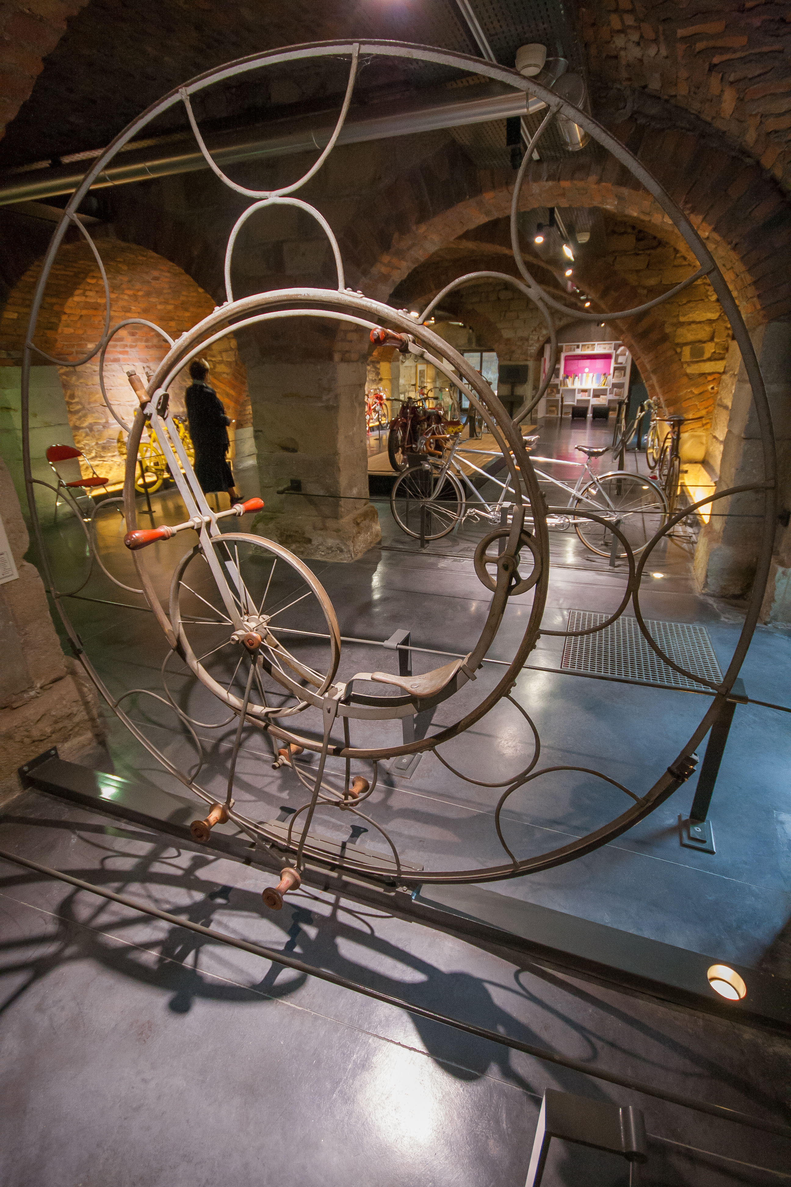 Unicycle rider inside, designed and produced in London in 1870. Cycles' Department in Saint-Étienne, Museum of Art and Industry.